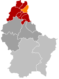 Heinerscheid municipality location (valid until 1 January 2012). Own edit of Kanton ClervauxLocatie.png